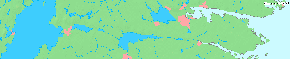 Motala ström / Göta kanal in Sweden. Bounding box West 14.4°, South 58.4°, East 17.2°, North 58.7°. Center at 58°33′N 15°48′E / 58.55°N 15.8°E.